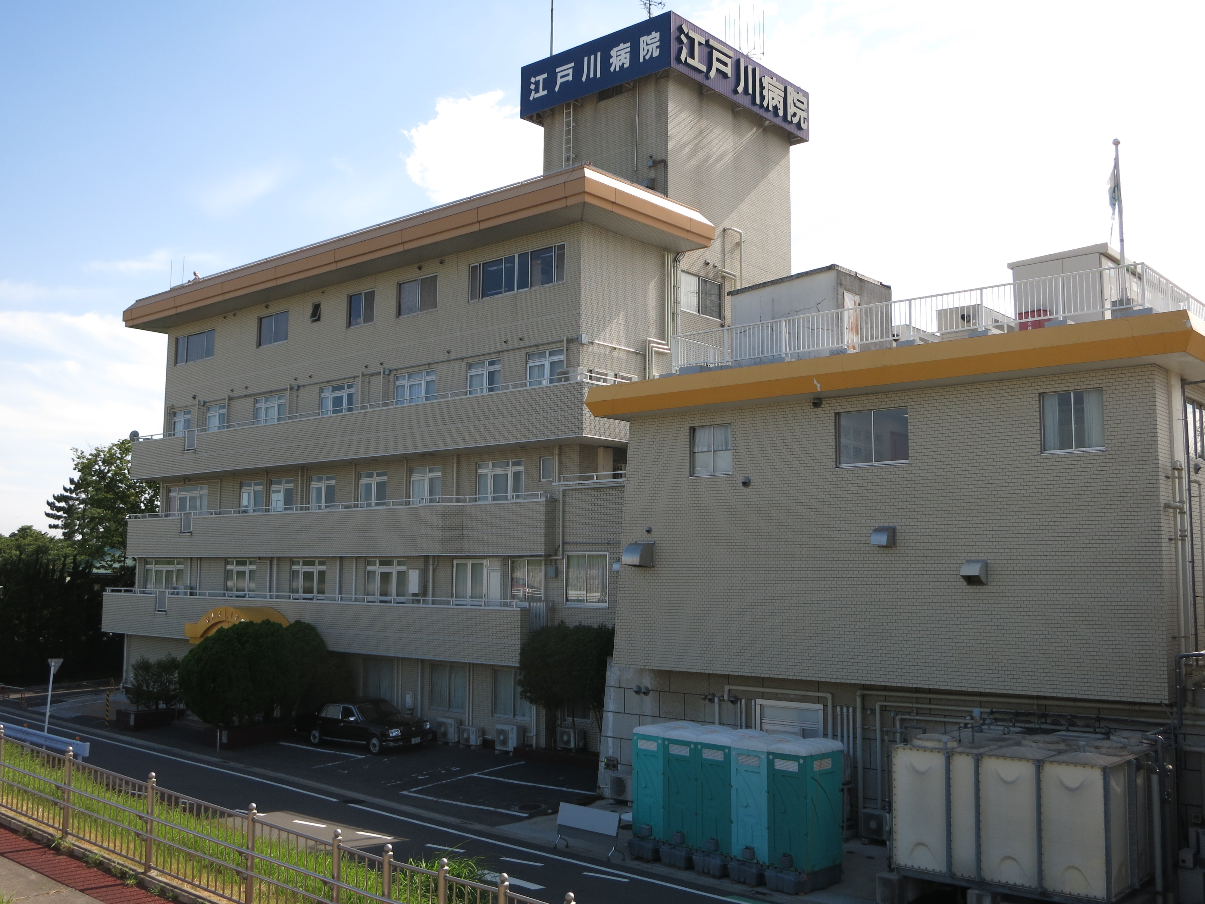 Edogawa Hospital